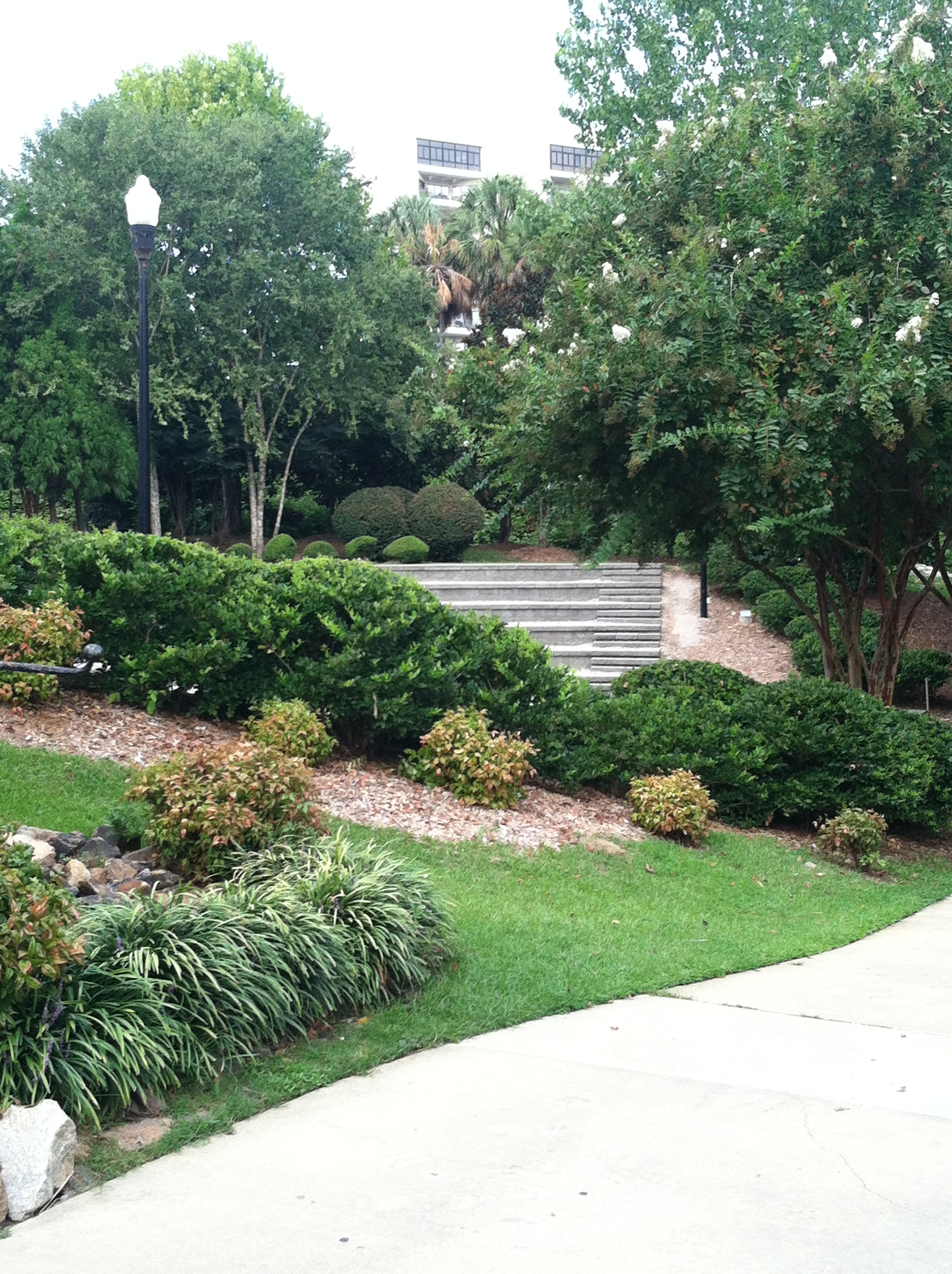 Near amphitheater